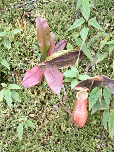 Nepenthes papuana from Western New Guinea (~1300 m asl)